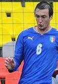 Luca Caldirola